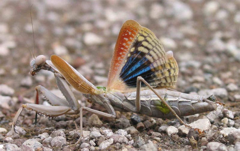 Mantodea, Rome, fighting with ants